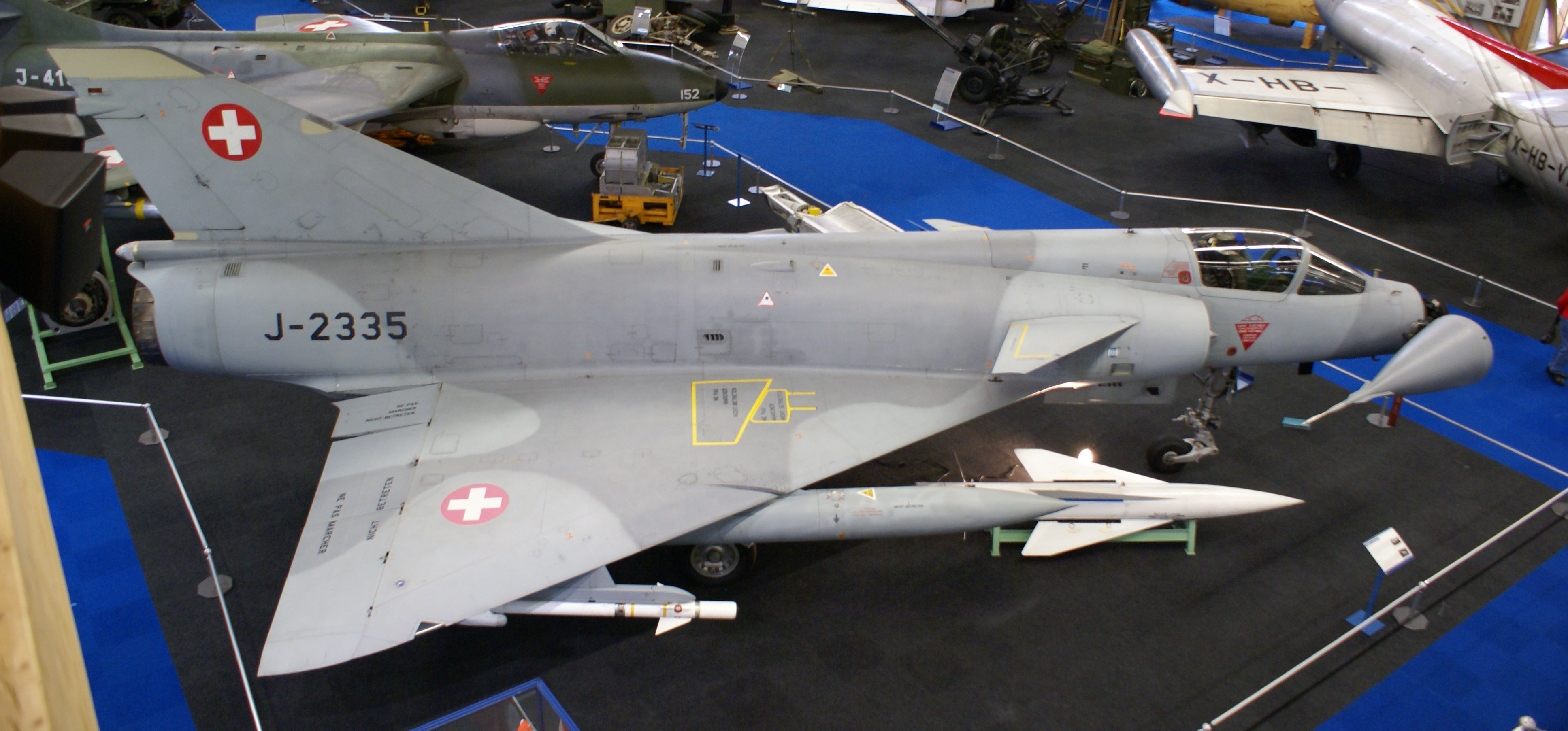 Dassault Mirage III S interceptor as used by the Swiss Air Force from 1967 to 1999.